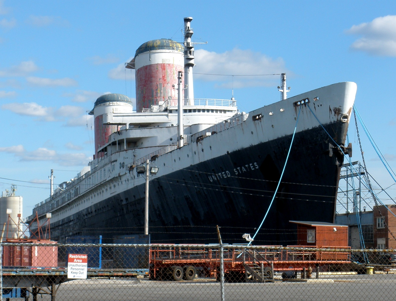 SS United States starboard side